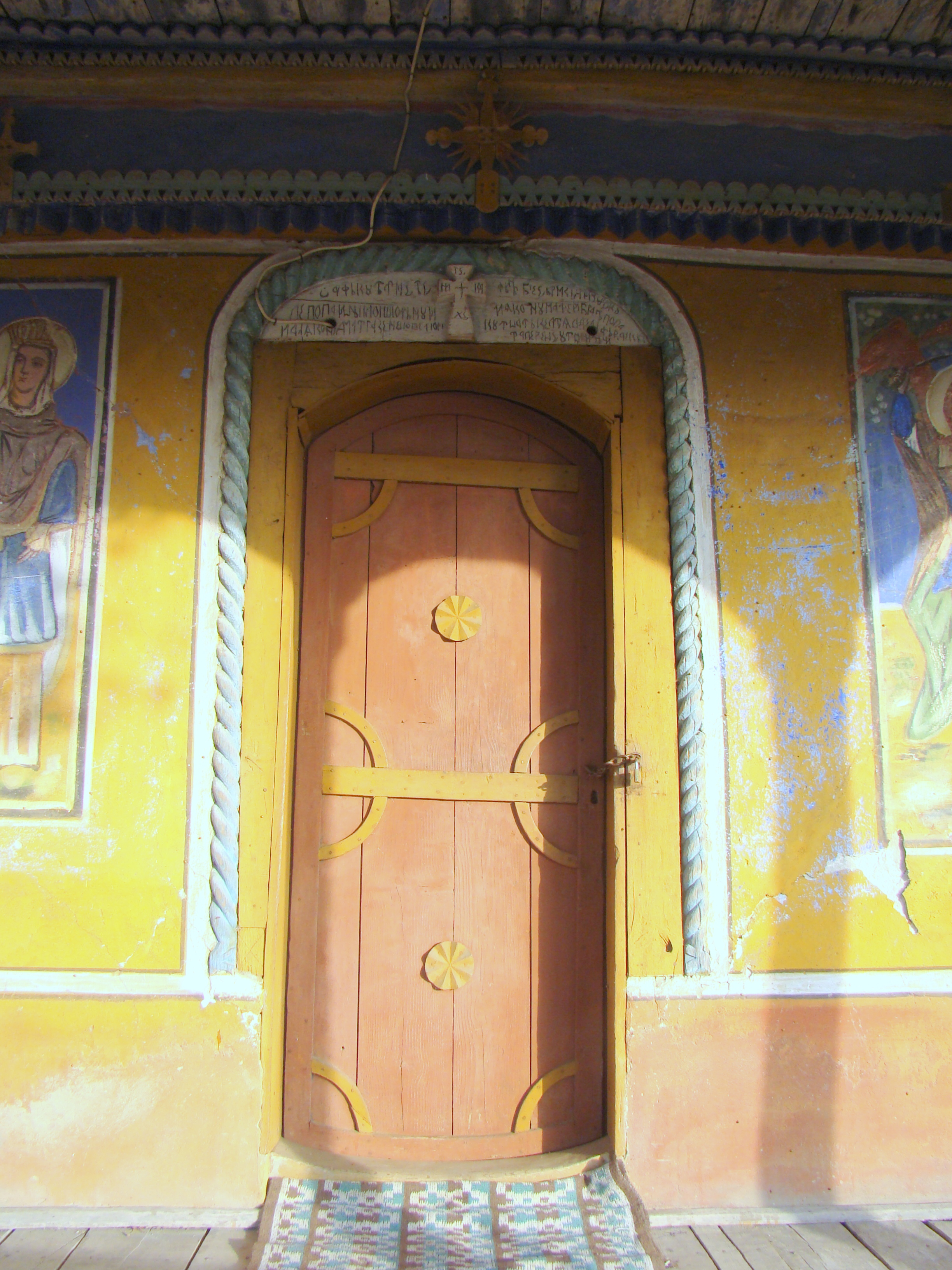 Wooden church in Plopșoru, Gorj county, Romania